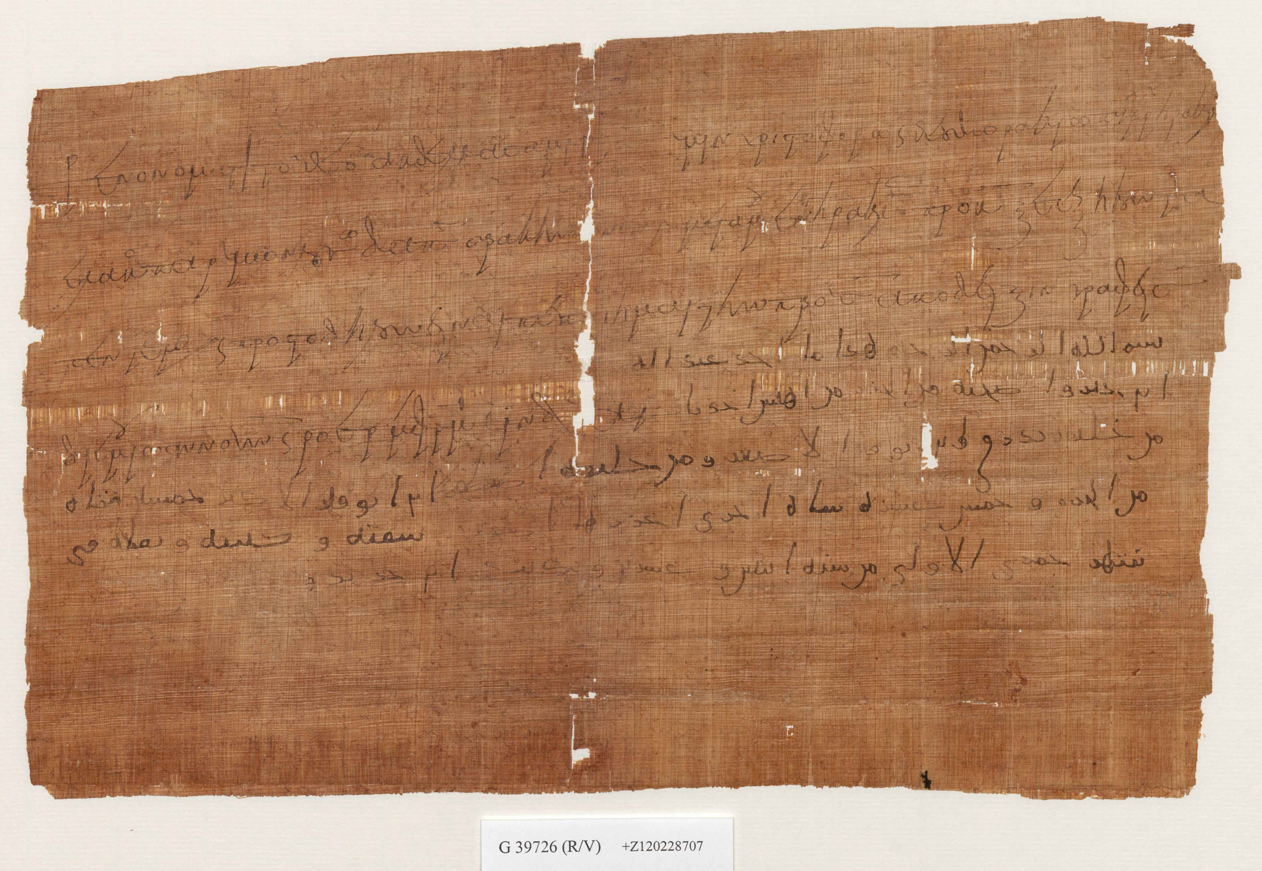 PERF 558, recto from the Katalog der Papyrussammlung, Österreichische Nationalbibliothek